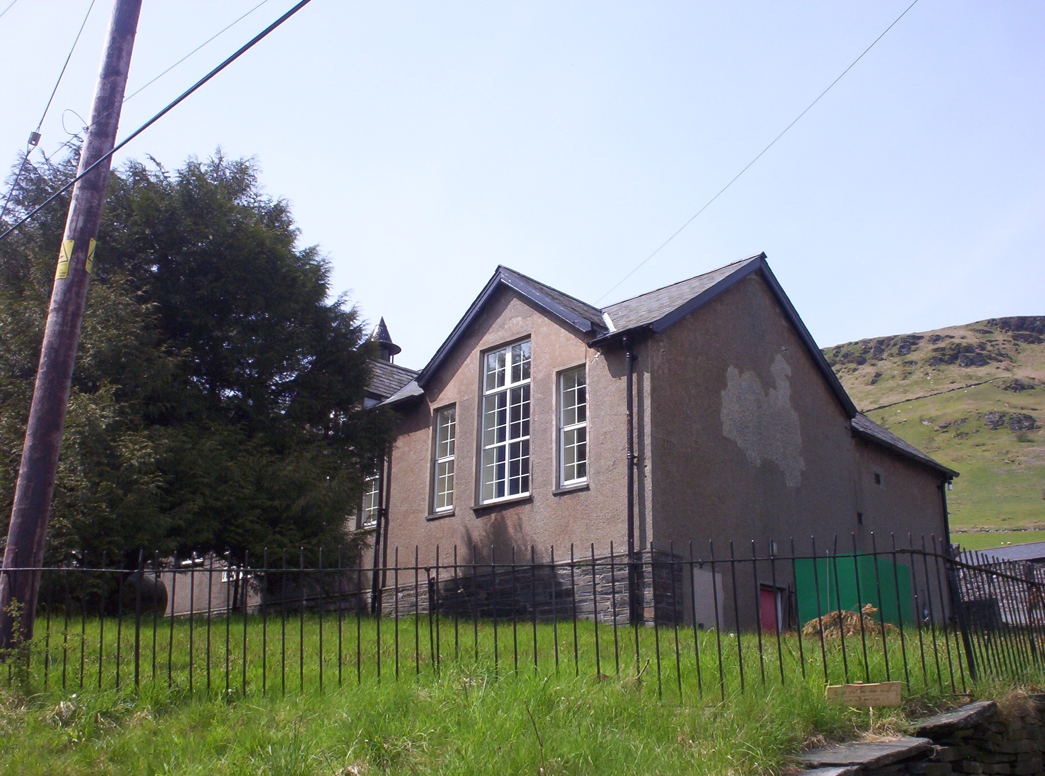 SOURCE- no apparent copyright Removed from the following pages: The Latymer School --OrphanBot 11:41, 6 April 2006 (UTC) Removed from the following pages: The Latymer School --OrphanBot 13:28, 8 April 2006 (UTC)